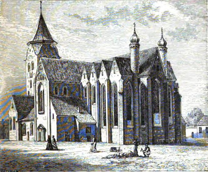 Cathedral in Aarhus. Denmark, as shown on an illustration in Czech-language Otto's Encyclopedia